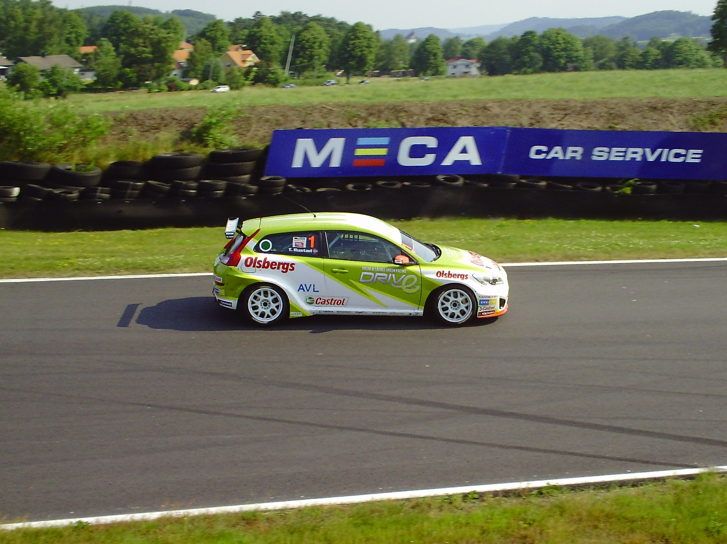 Tommy Rustad in a Volvo C30 for Polestar Racing in Swedish Touring Car Championship at Falkenbergs Motorbana 2010.